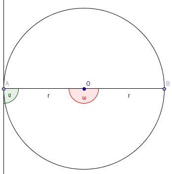 Inscribed angle case 5